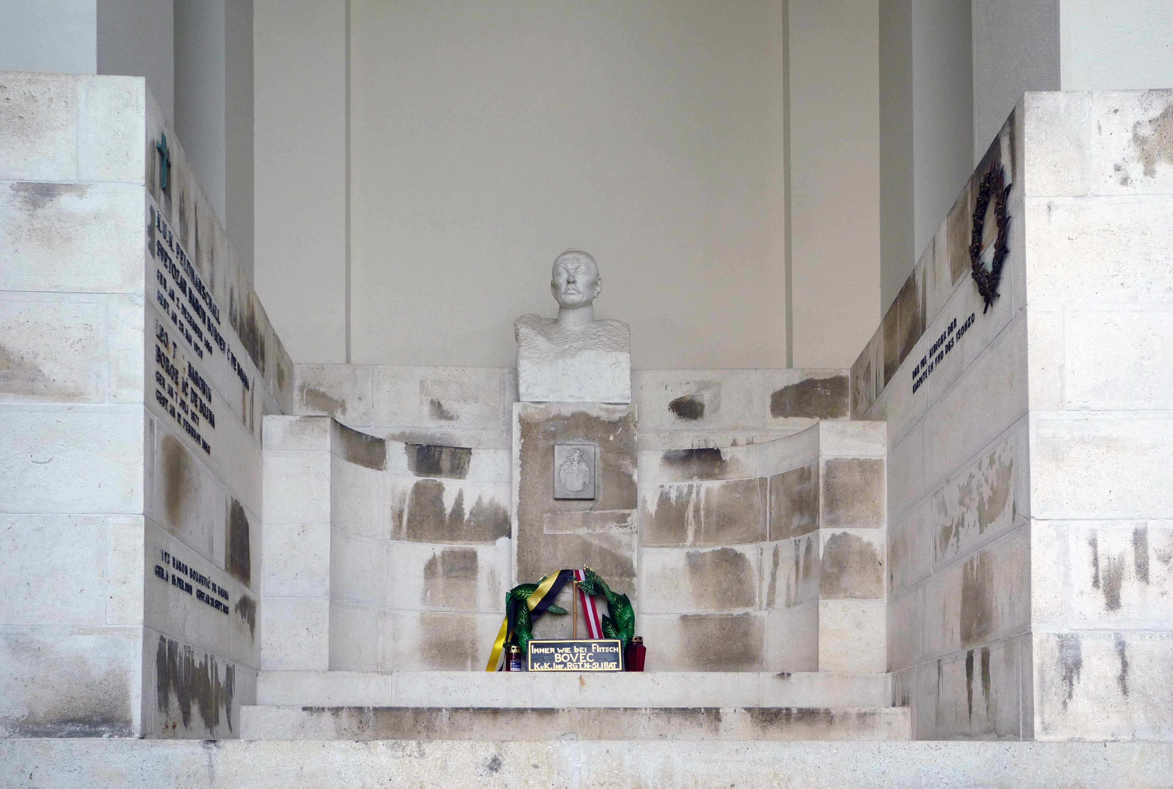 Tomb of k.u.k. field marshal Svetozar Boroëvić von Bojna on Vienna Zentralfriedhof